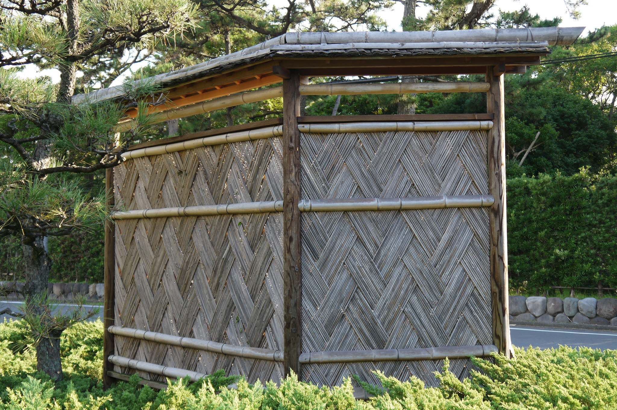 Numazugaki is a traditional form wall of Numazu, Shizuoka Prefecture, Japan.